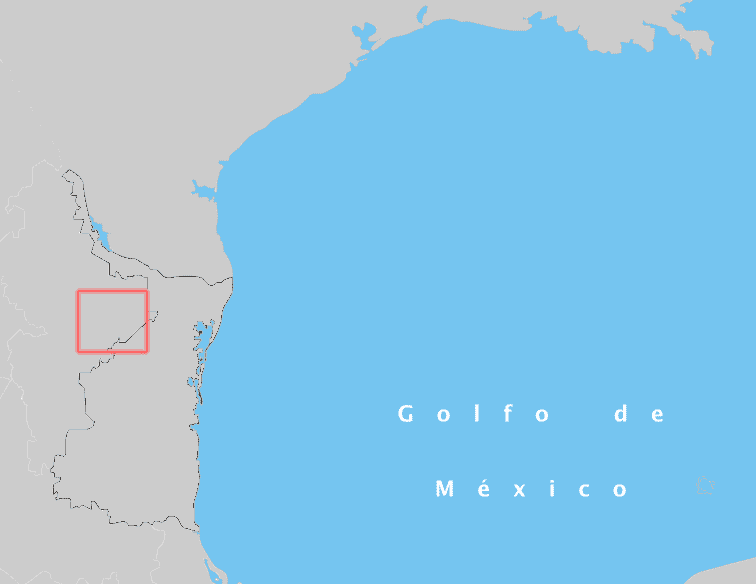 Approximate language area for quinigua language